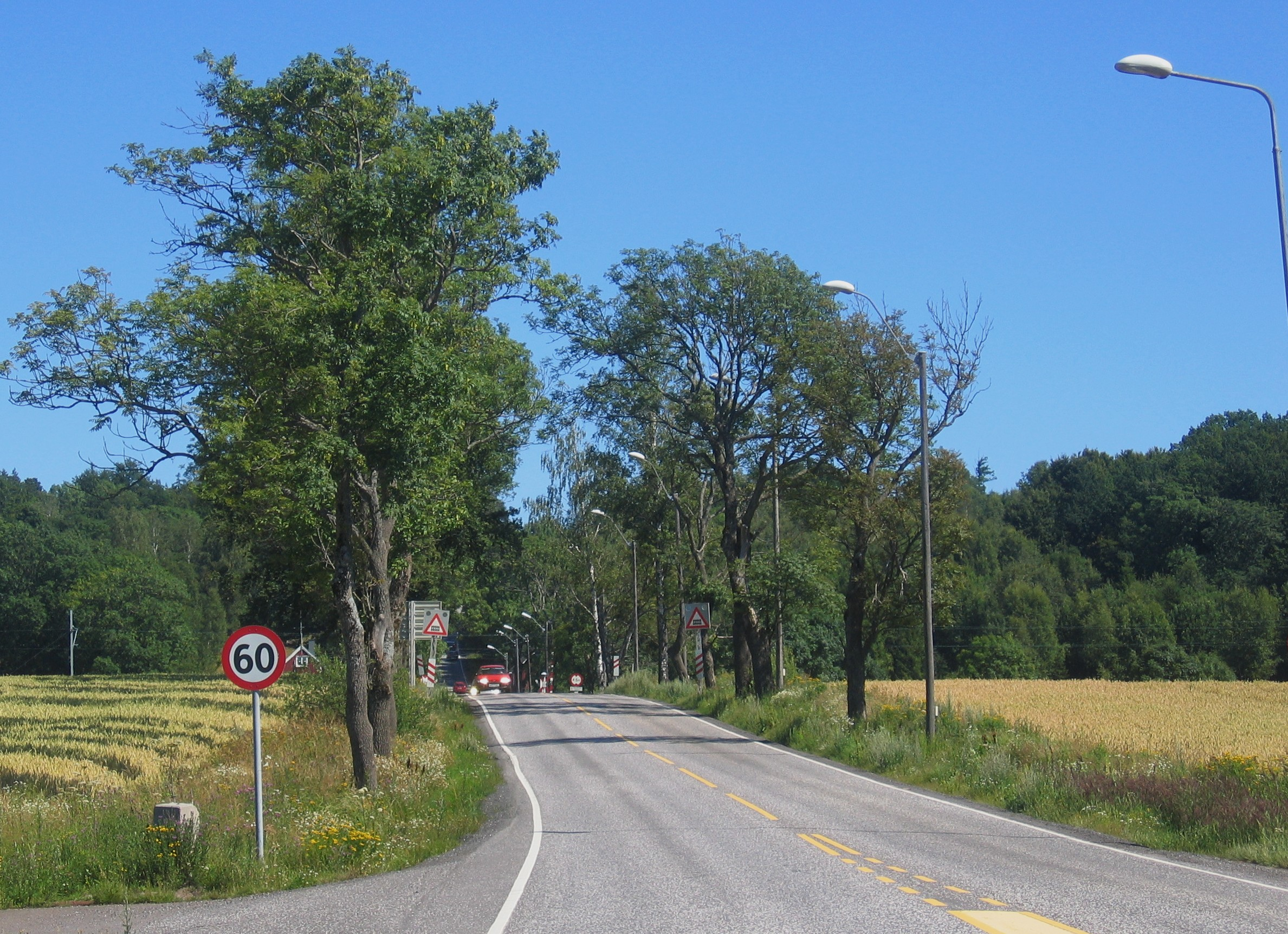 Tomsbakken, road just outside town of Tonsberg, Norway.